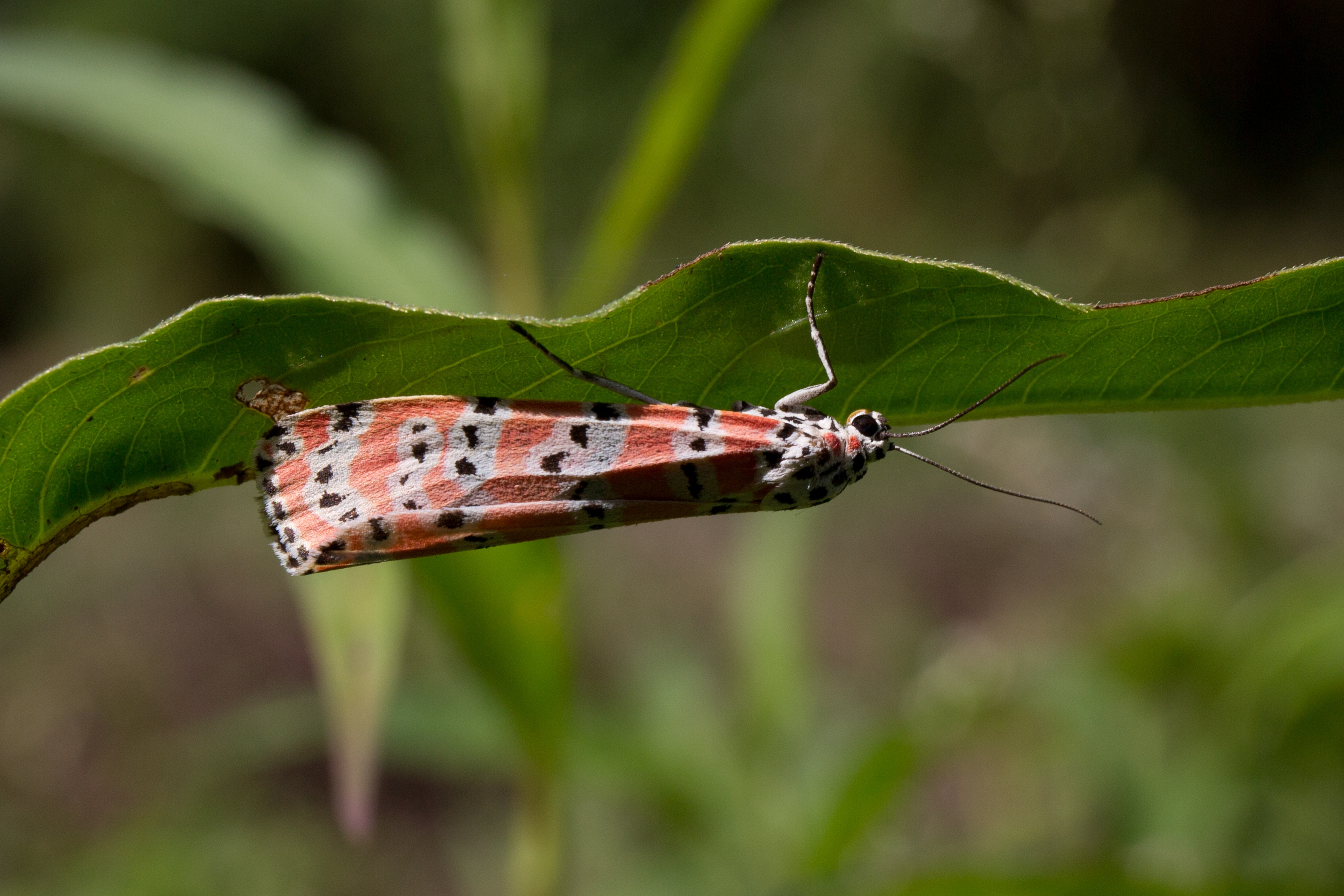 Utetheisa ornatrix in Tercer Frente, Santiago de Cuba province, Cuba